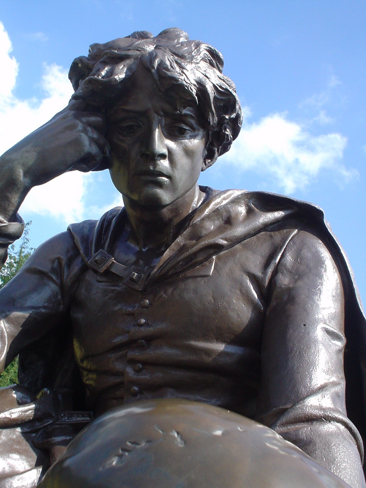 Sculpture of Hamlet in England.